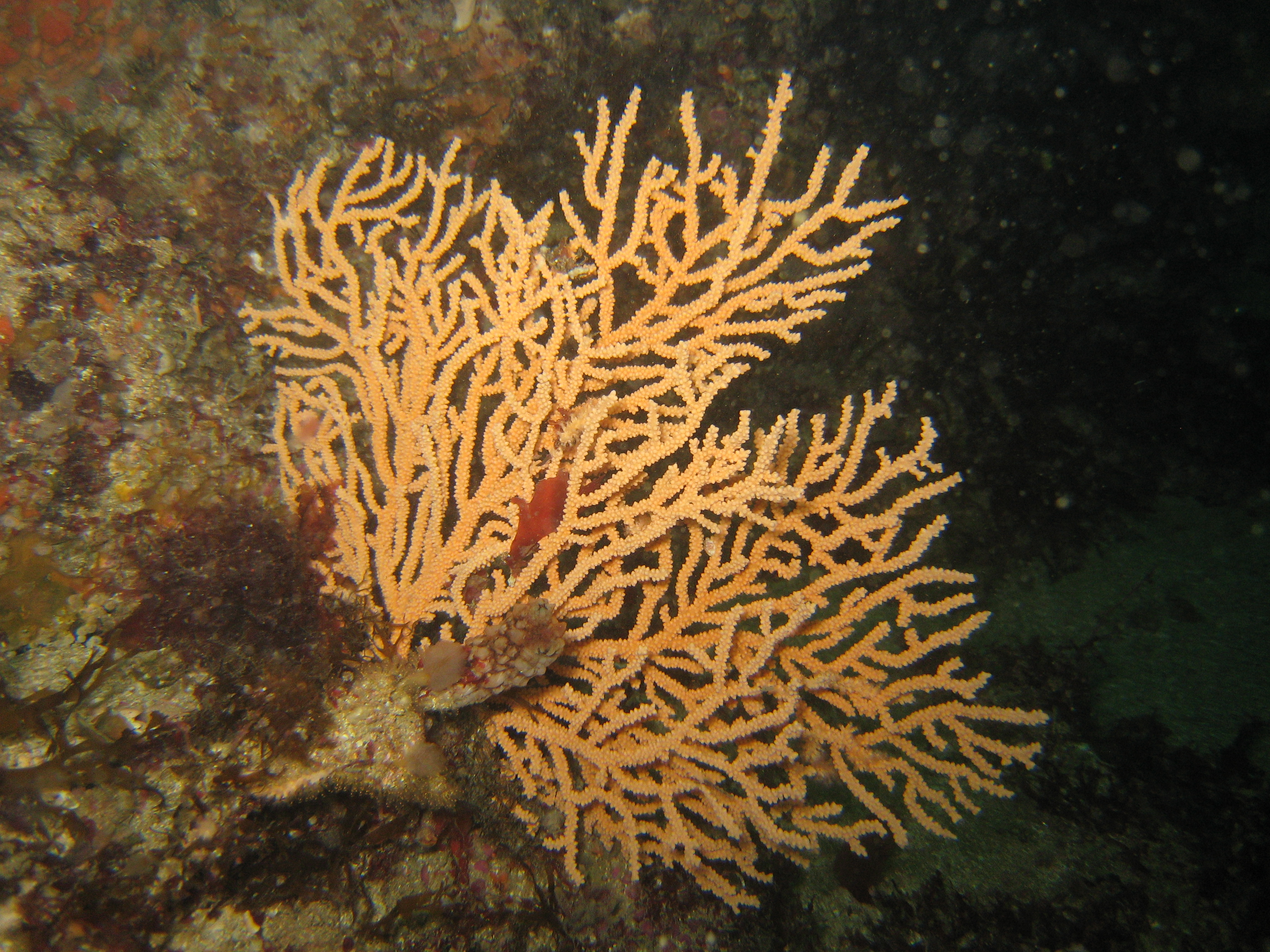 Eunicella verrucosa with Styela clava in Saint-Quay-Portrieux